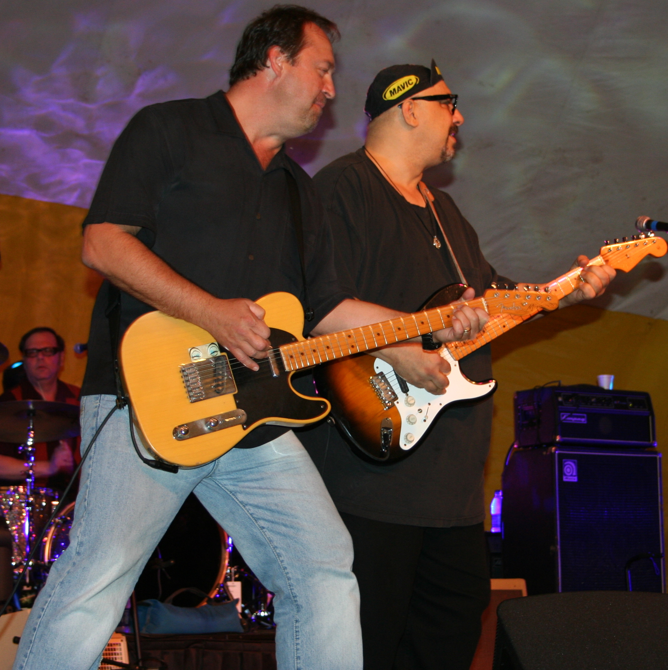 Dennis Diken (left, on drums), Jim Babjak, and Pat DiNizio (right) of the Smithereens playing at an outdoor concert at the Mayo Civic Center in Rochester, Minnesota